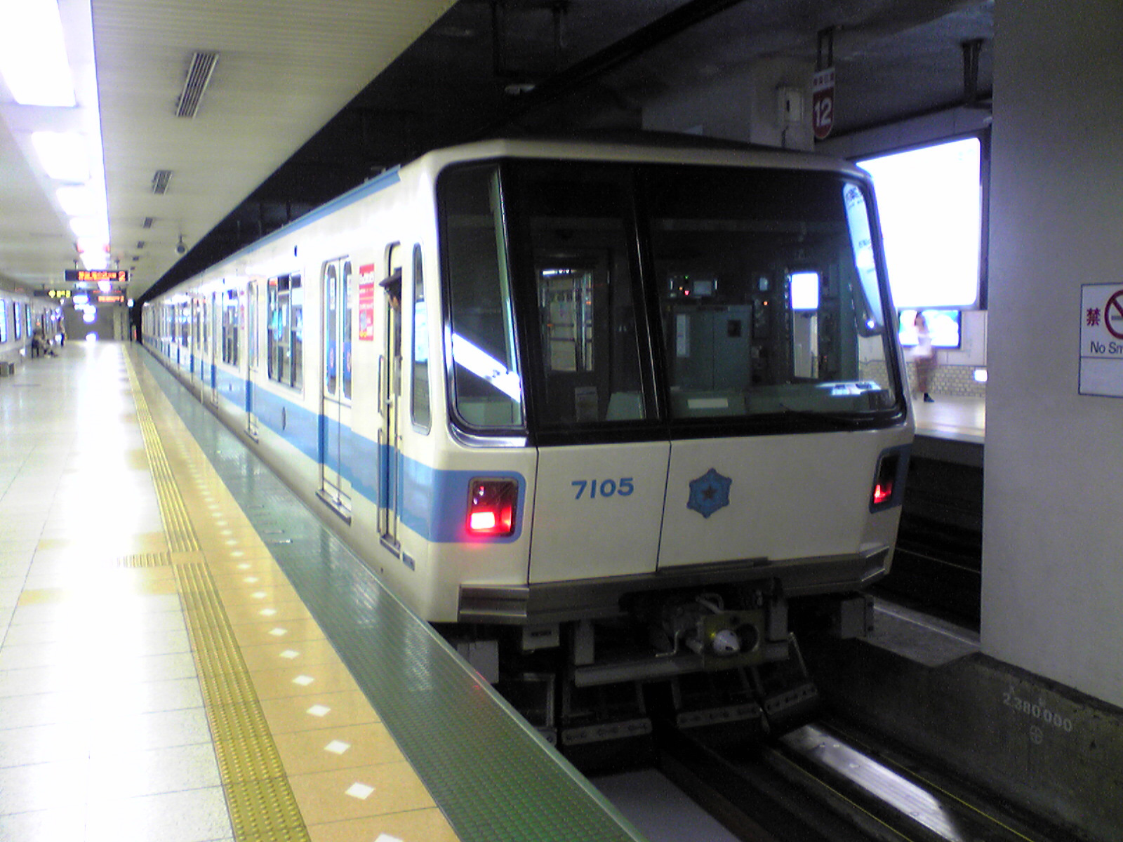 Sapporo City Transportation Bureau 7000-Type Railcar, Tōhō line, Sapporo-city, Japan. Taken by Bellz asamidou on August 23, 2007.